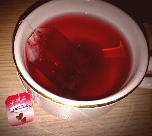 Hibiscus tea This is an image of food from Tunisia